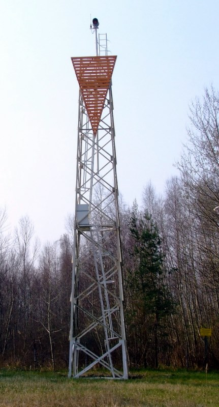 Sea mark Top "Trzebież - N" (Trzebiez, Poland)